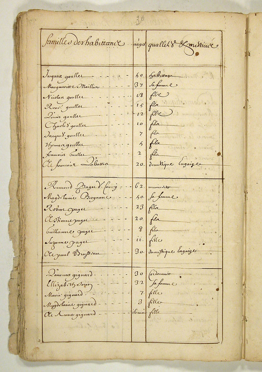 1666 Census of New France